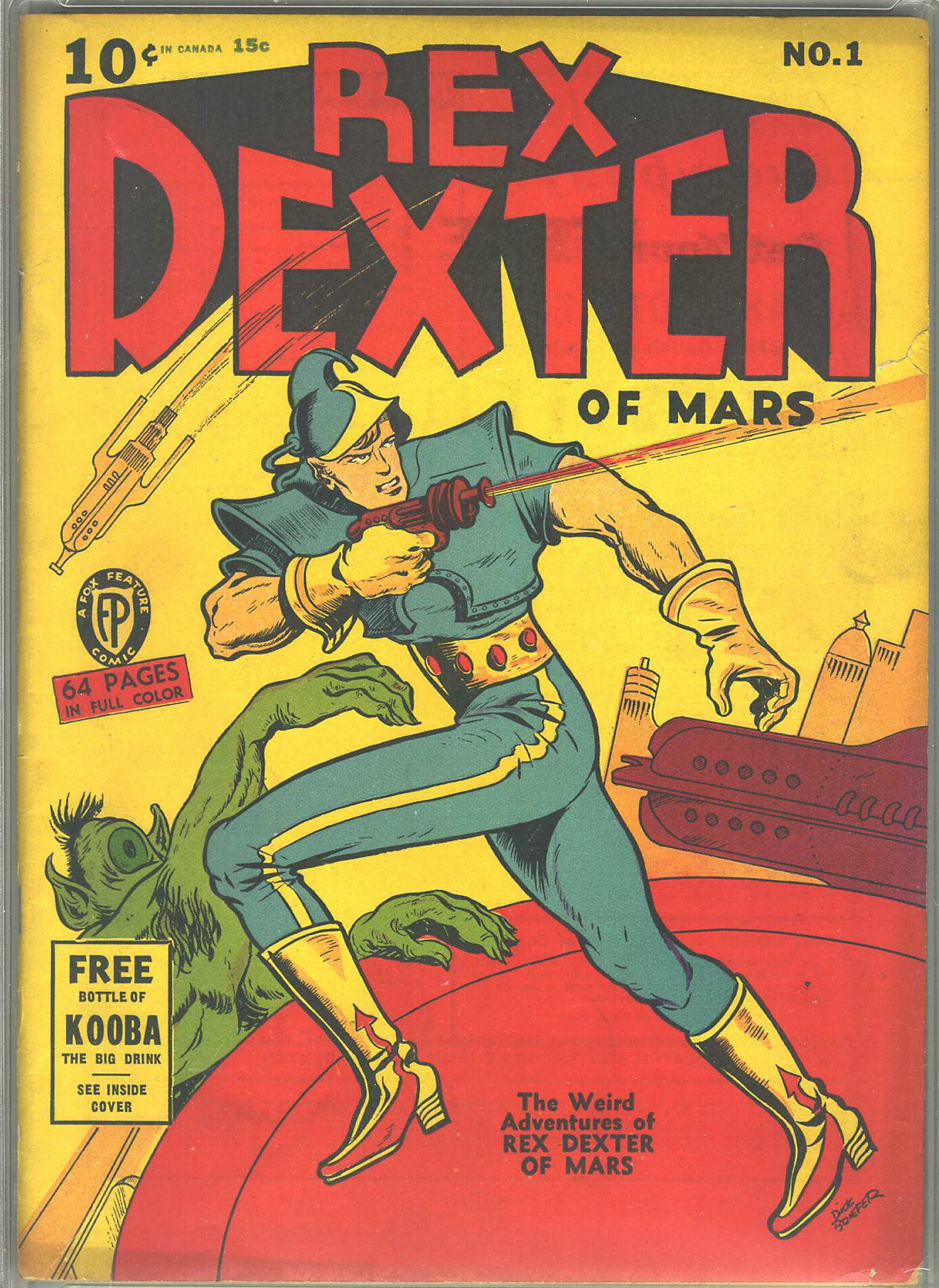 Rex Dexter of Mars #1 (Fall 1940)